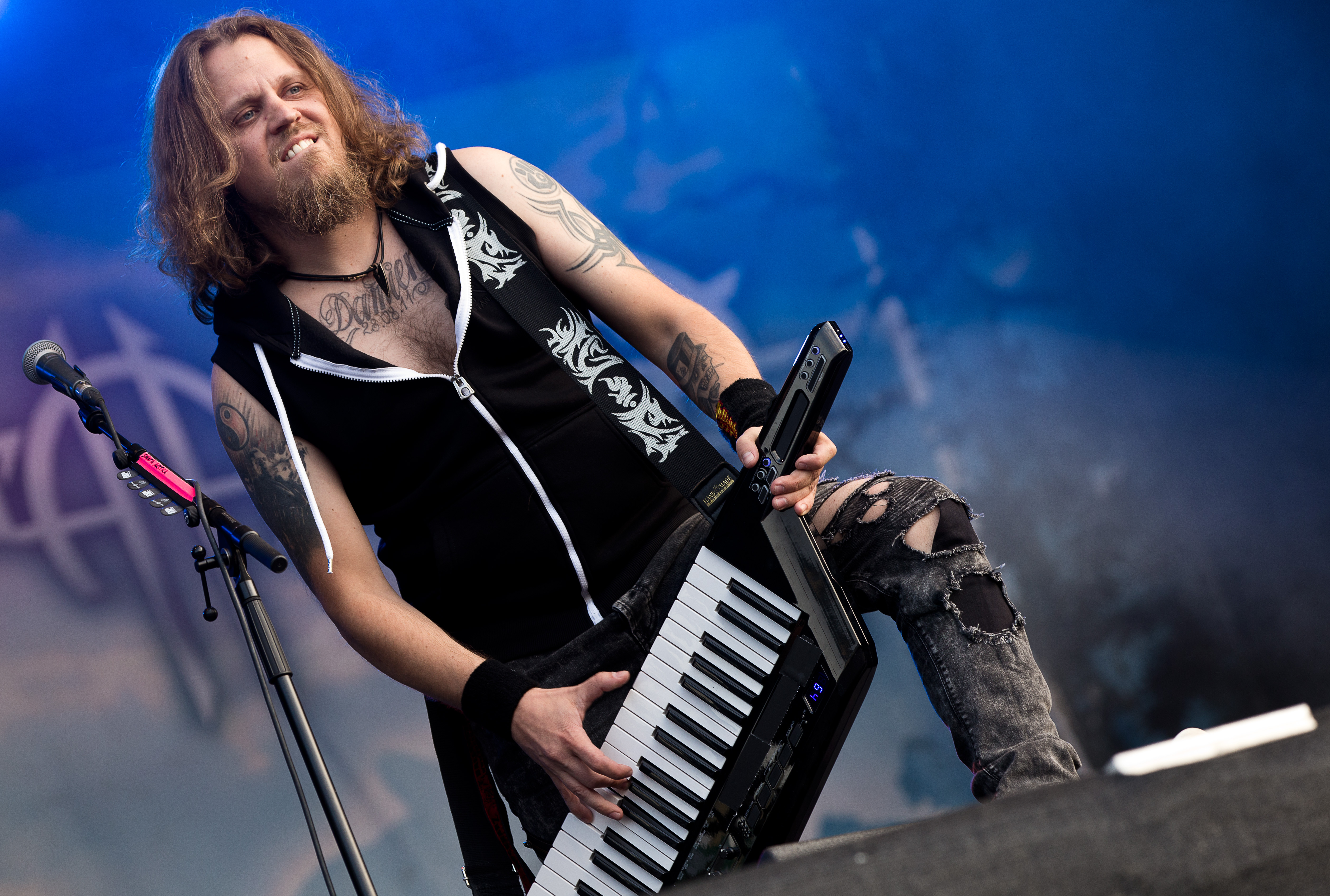 The Finnish power metal band Sonata Arctica at the Rockharz Open Air 2016 in Ballenstedt/Germany.